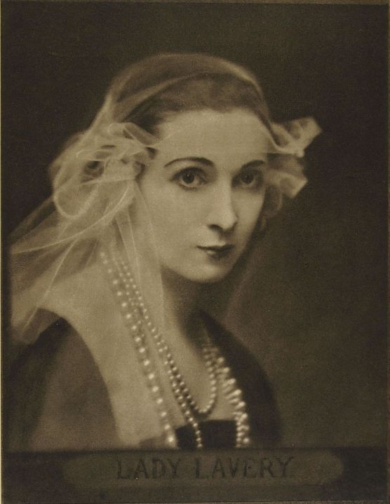 Photograph from The Book of Fair Women by E.O. Hoppé (1922)